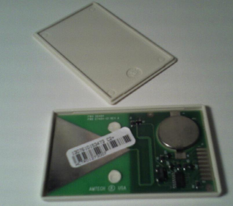 The inside of an "old EZ TAG".